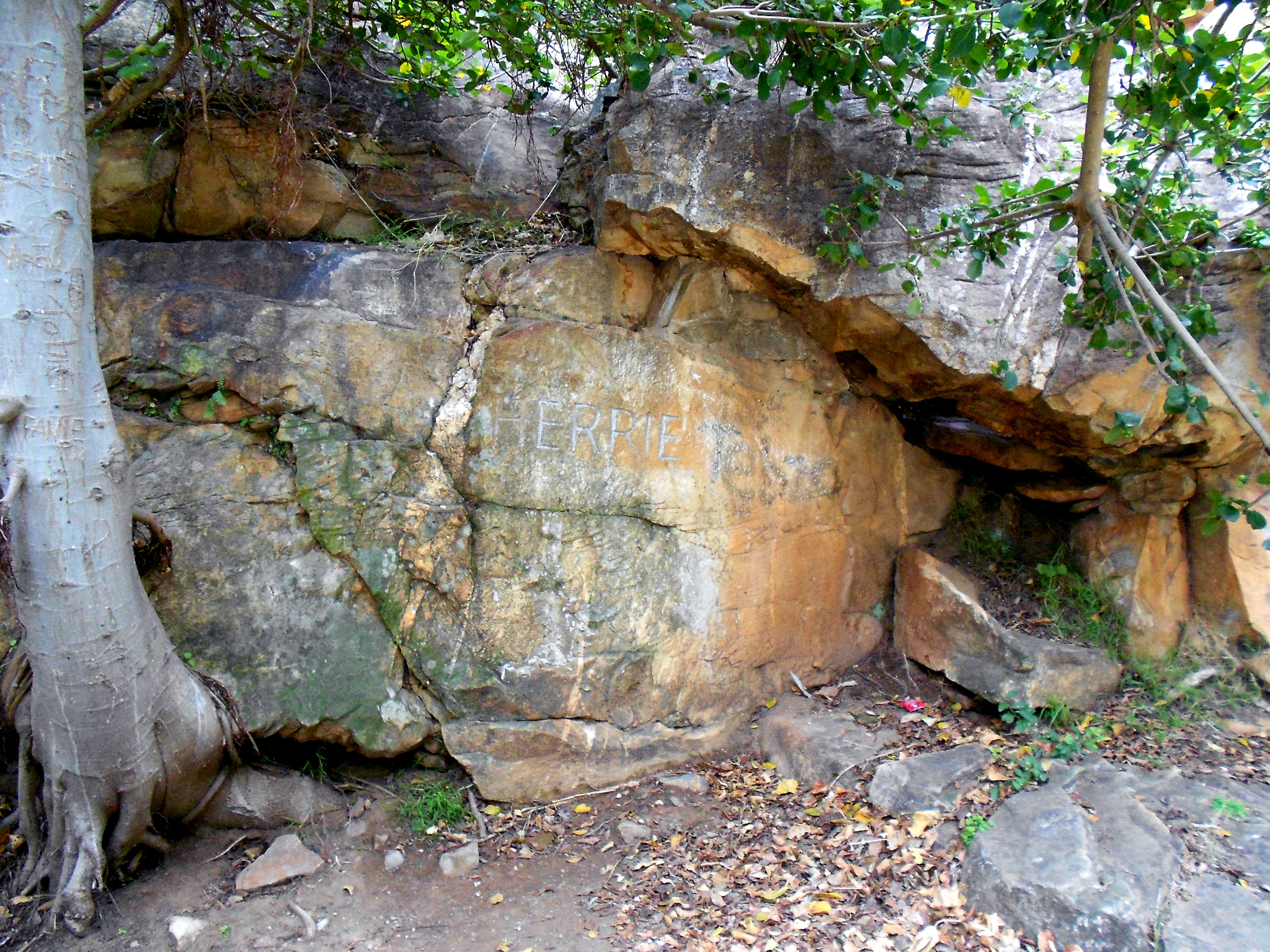 C. J. Langenhoven (1873-1932), Afrikaans writer protagonist of the Afrikaans language and author of the South African National Anthem, chiselled the name of the well-known elephant "Herrie" from his book Sonde met die Bure, on this rock in July 1929. This media shows a South African Protected Site with SAHRA file reference 9/2/068/0010.